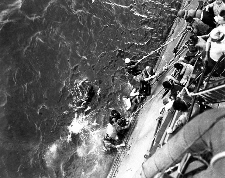 Survivors of USS Lexington (CV-2) are pulled aboard a cruiser - probably USS Minneapolis (CA-36) - after the carrier was abandoned on the afternoon of 8 May 1942 during the Battle of the Coral Sea. Note the man in the lower part of the photo who is using the cruiser's armor belt as a hand hold.